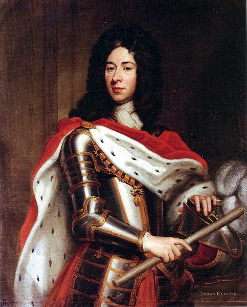 Portrait of Prince Eugene of Savoy (1663-1736)